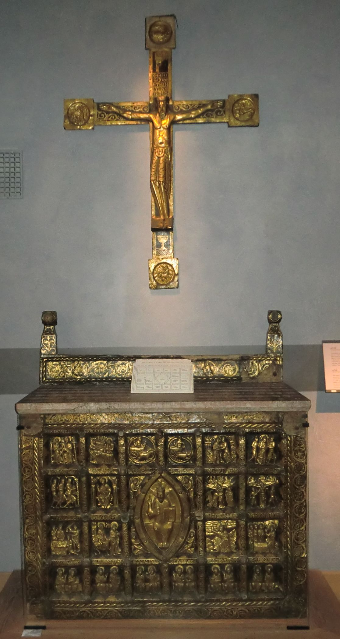 Altar from Broddetorp parish church, Västergötland, Sweden. Made of gilt copper on wooden panel in the 12th century. It may have been commissioned during the time of Bengt the Good (c. 1160 - 1190), bishop of Skara, and was probalbly made in the at that time danish town Lund. On display at the Swedish Museum of National Antiquities in Stockholm.